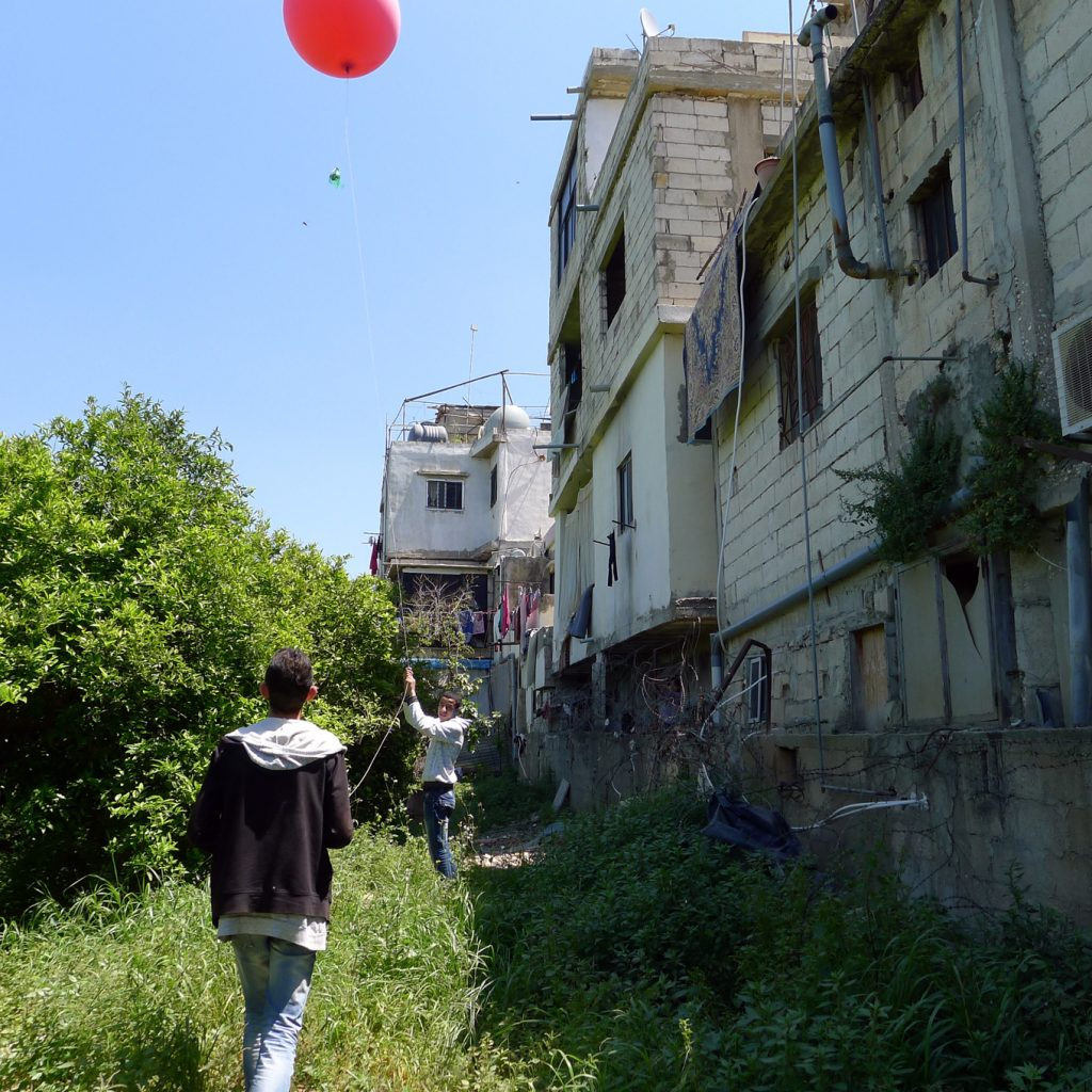 Balloon mapping of the Burj el-Shemali Palestinian refugees camp by its own residents in metropolitan Tyre, Southern Lebanon, during a 2015 project of the NGO Greening Bourj Al Shamali